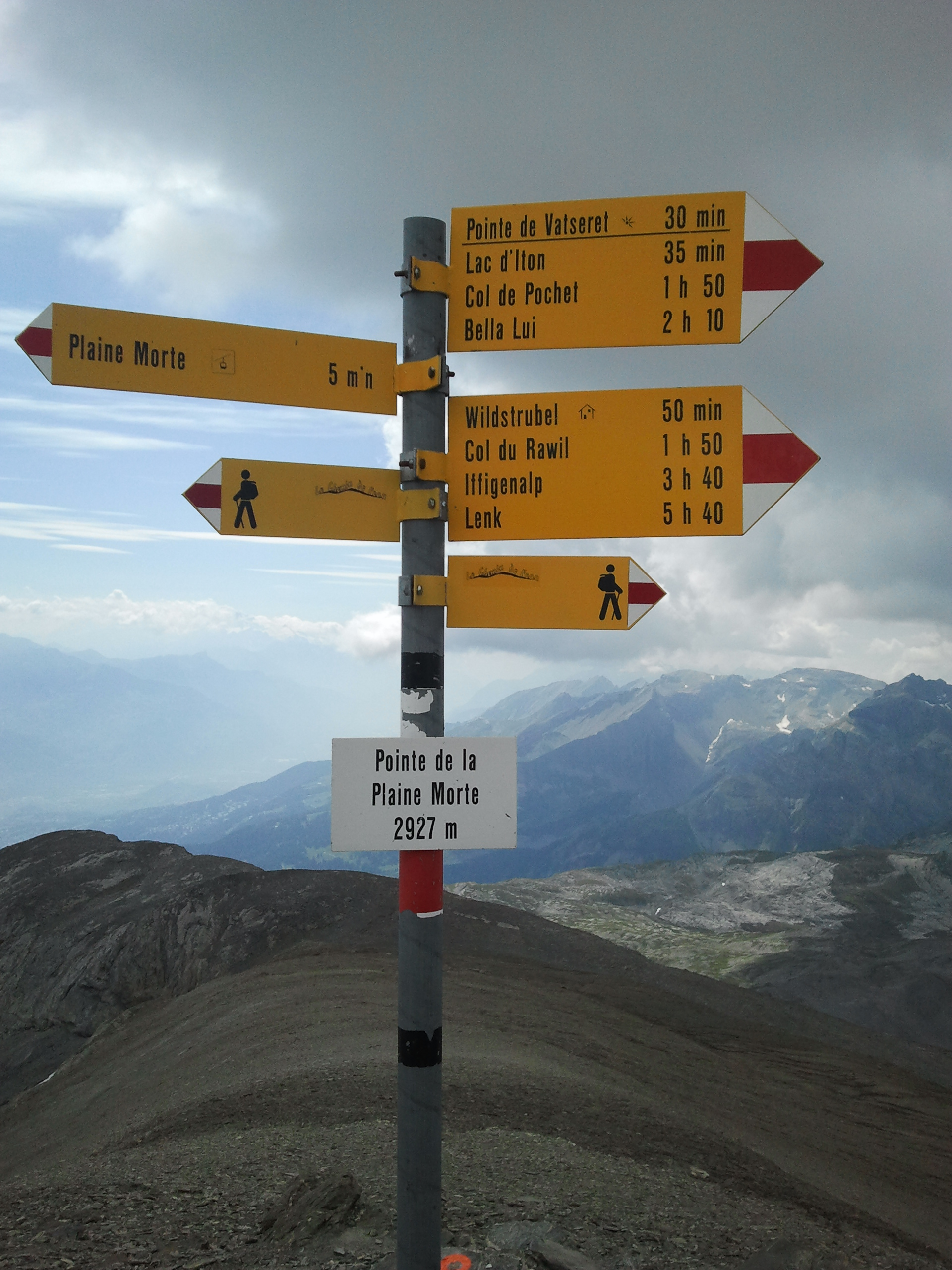 At the top of the Plaine Morte in Crans Montana (2923m)